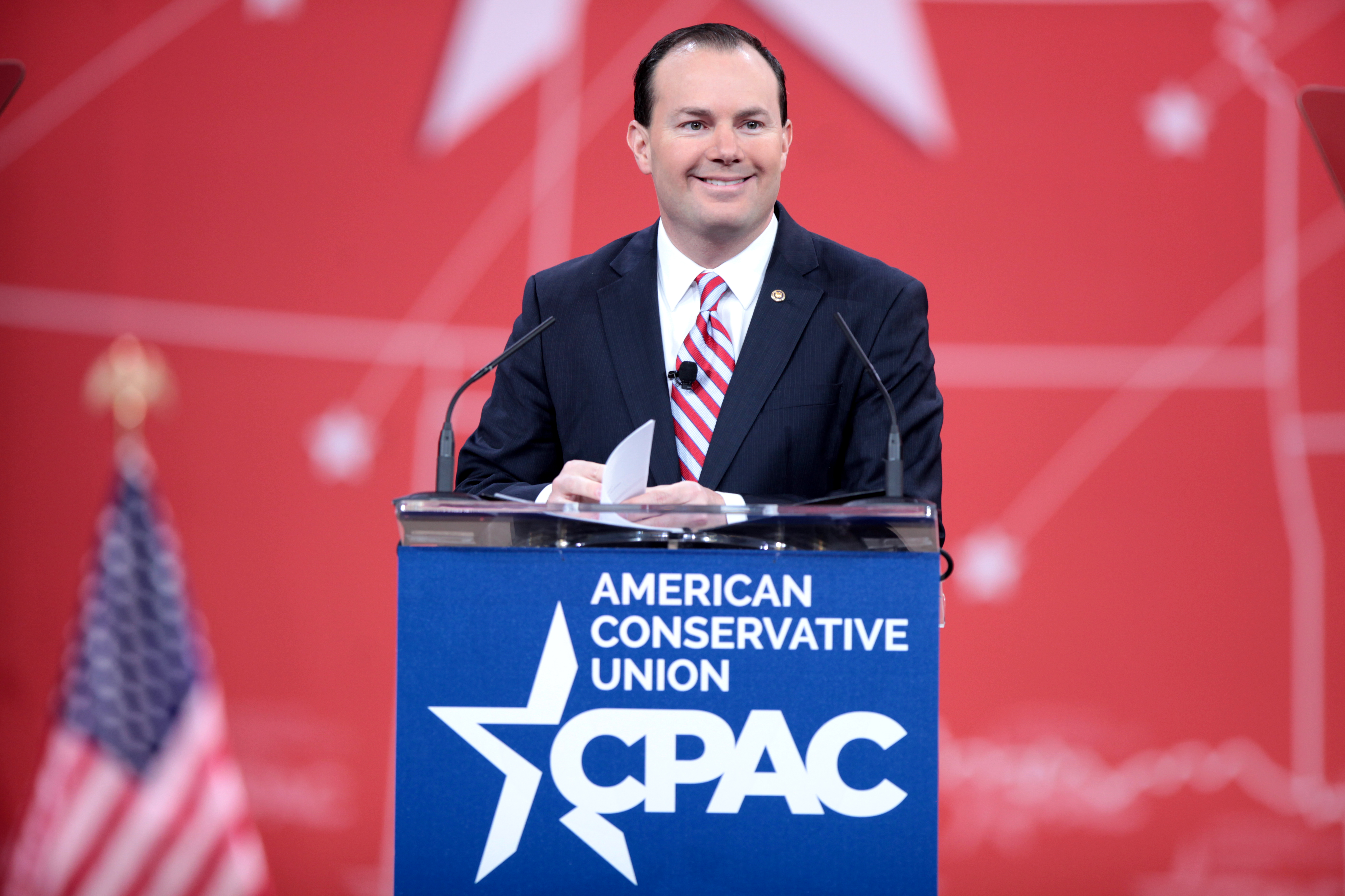 Mike Lee speaking at CPAC 2015 in Washington, DC.